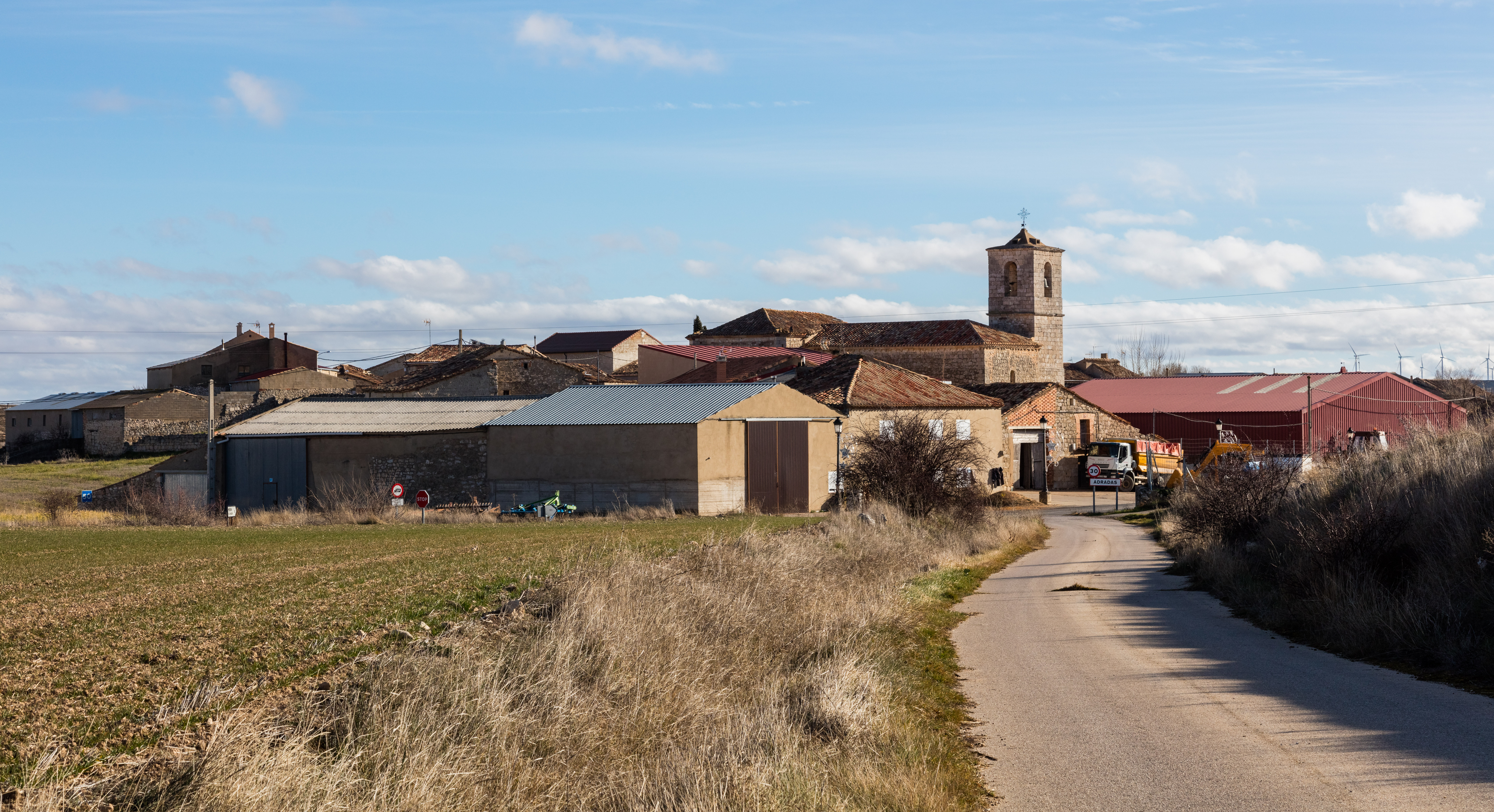 Adradas, Soria, Spain